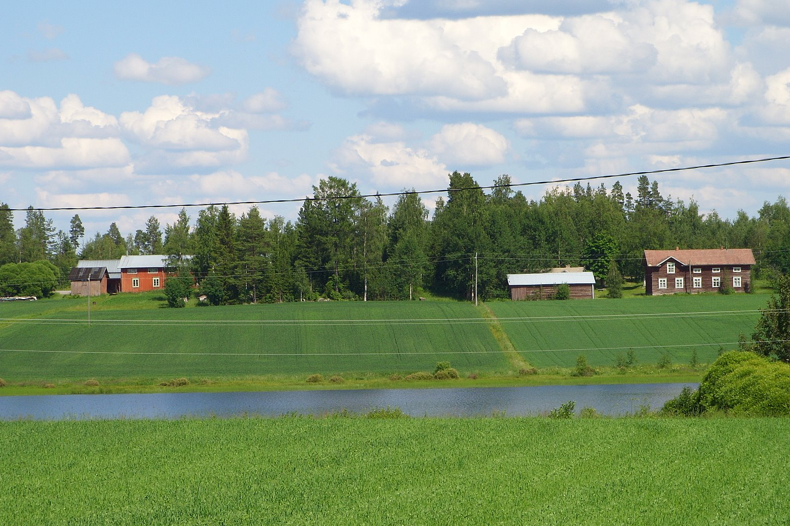 Koskutjarvi Koskutjarvi (in Finnish Koskutjärvi) is a lake in the center of Koskue village. The first settlers lived around Koskutjarvi. There are some farm houses left from the beginning of the 20th century. Photograph: Samsung S850, Olli-Jukka Paloneva